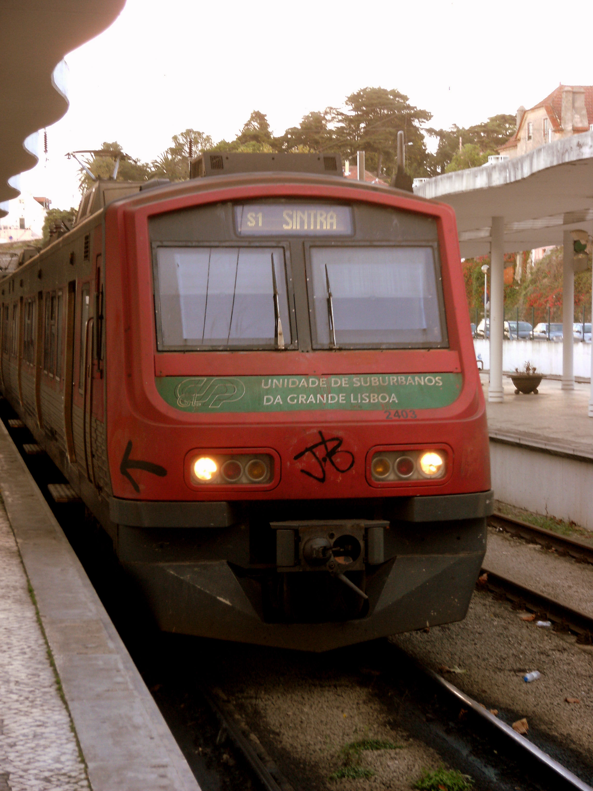 Sintra 2012-10-27